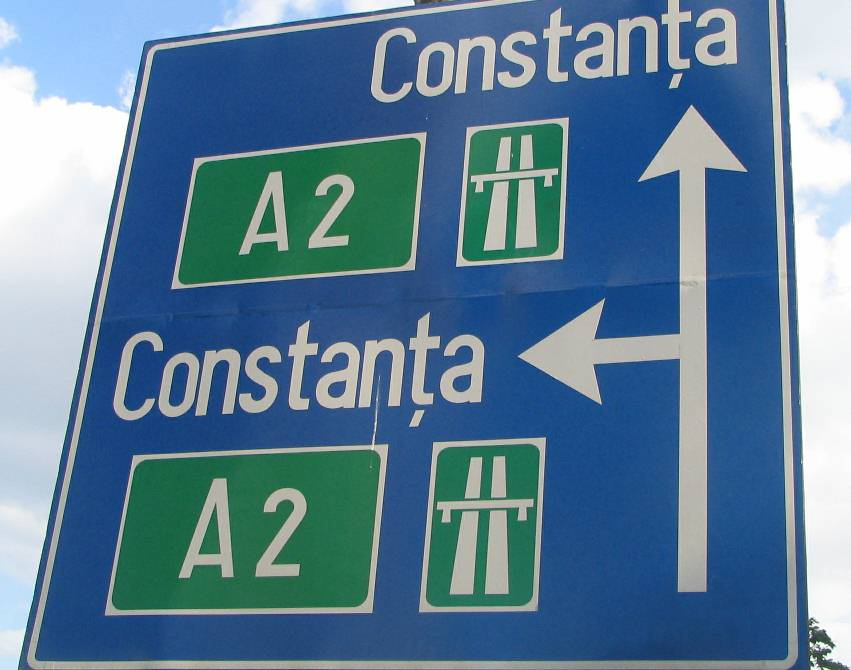 Road sign in Bucharest, Romania